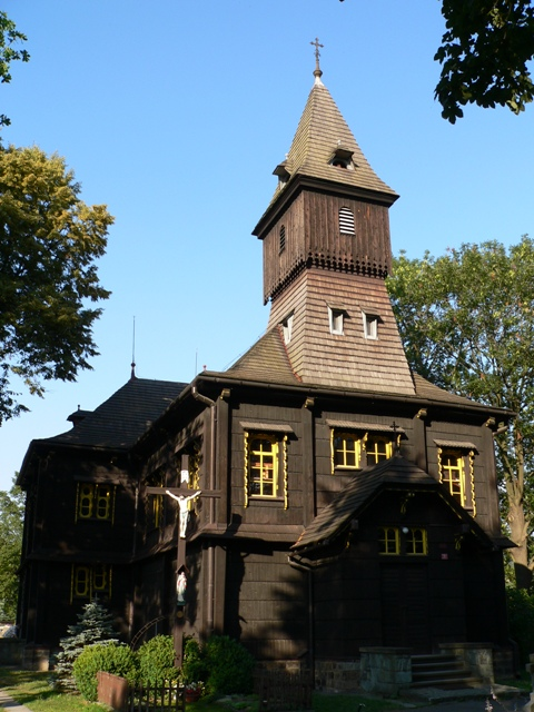 Exaltation of the Cross Church in Bystřice (Bystrzyca), Czech Republic